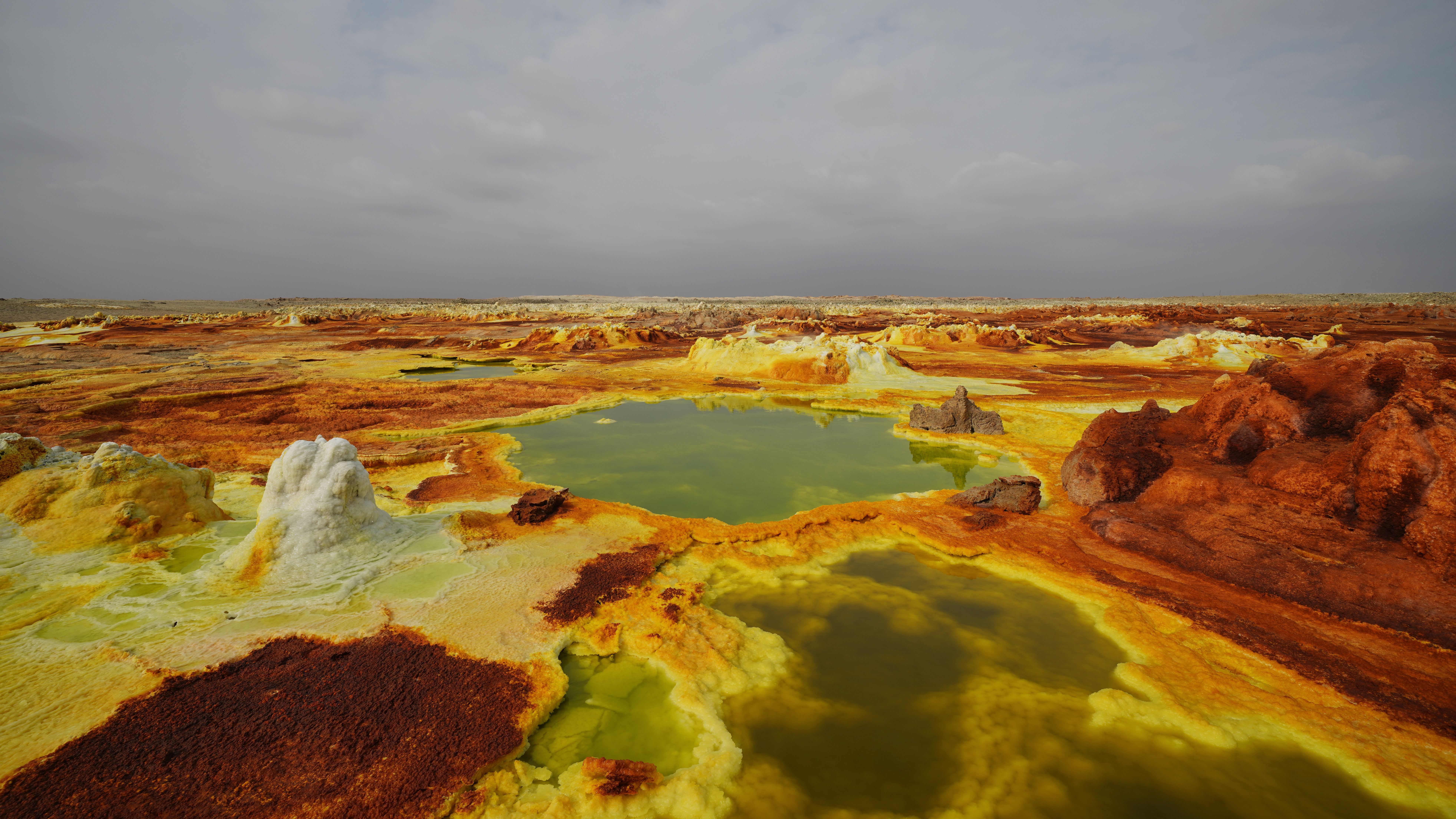 Landscape at Dallol volcano, Afar Region, Ethiopia